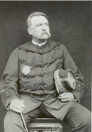 Général Louis Brière de l'Isle, taken between 1884 and 1896. He wears the Plaque of the Grand Officier de la Légion d'honneur on his left chest.